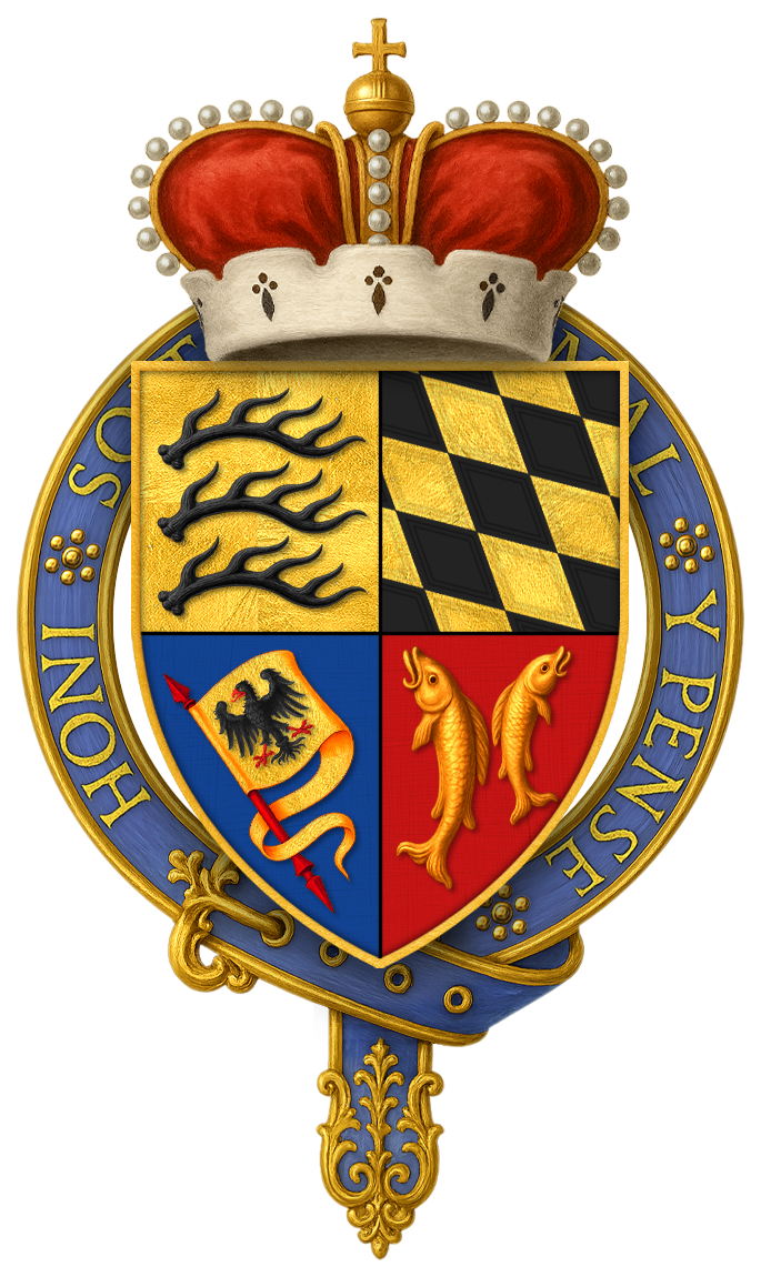 Coat of arms of Frederick I, Duke of Württemberg, KG